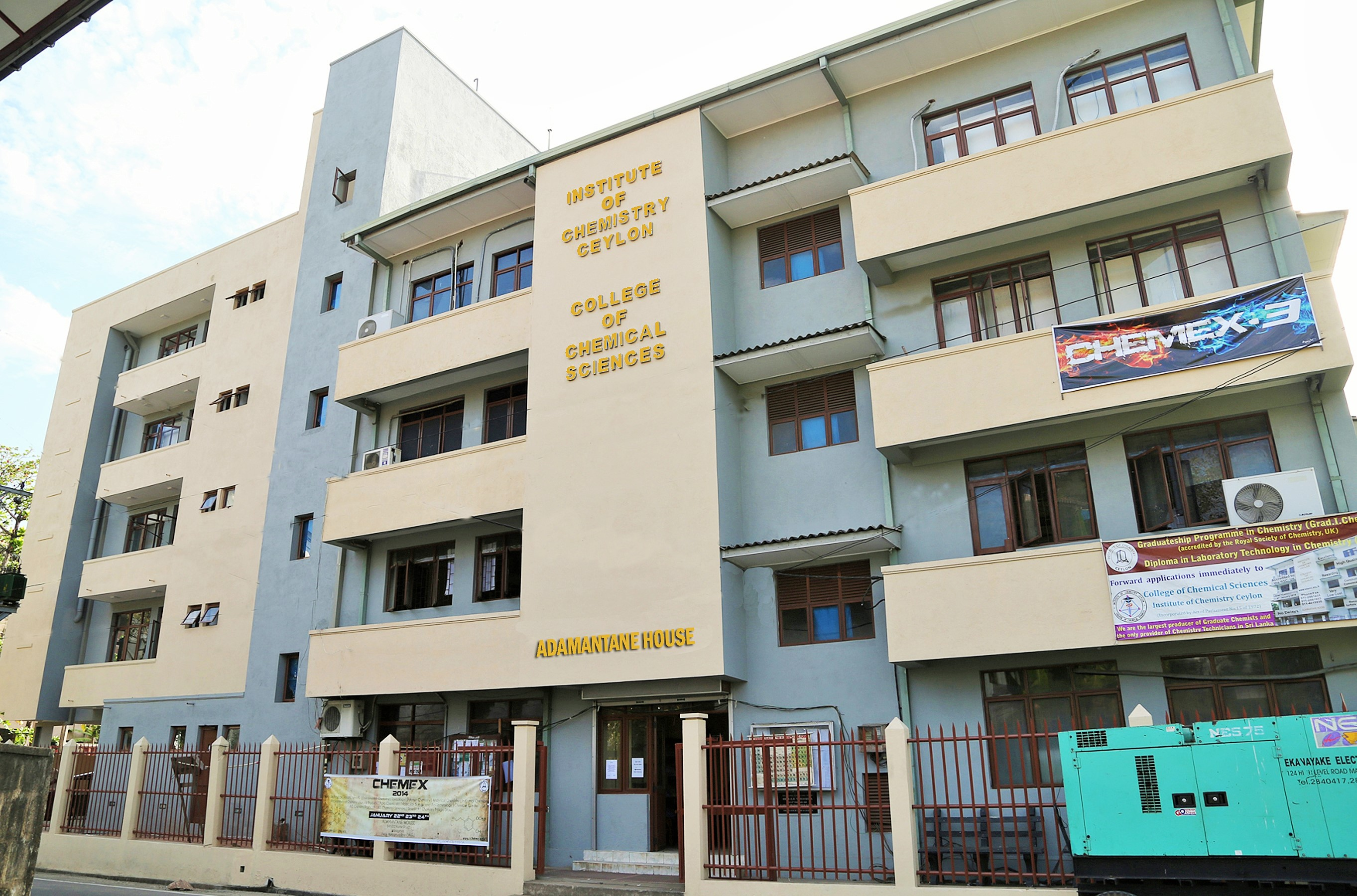 New Building